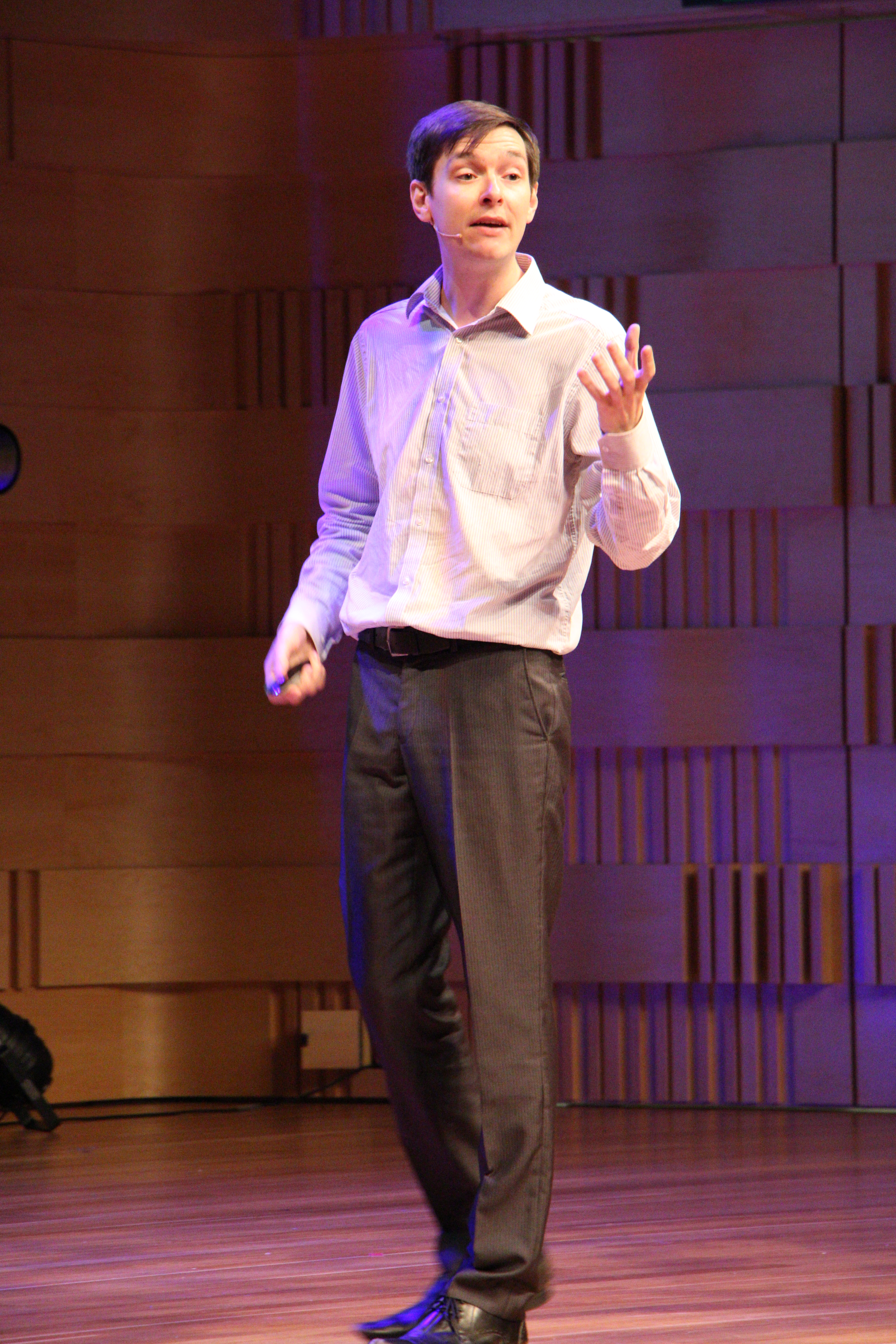 Australian Skeptics Convention held in Sydney, November 2014. Michael "Marsh" Marshall speaking on "Lifting the lid: Ongoing adventures in the world of pseudoscience".